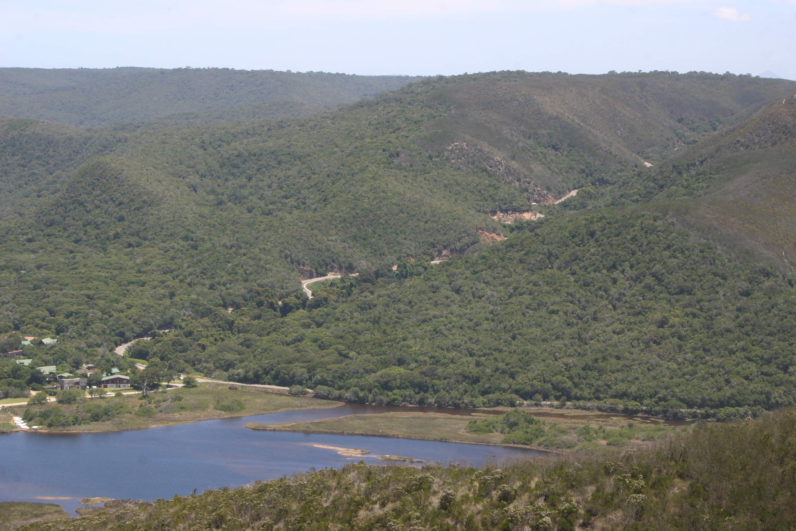 Western section of Thomas Bain's 1880 Grootrivier Pass from The Crags down to Nature's Valley, South Africa. Grootrivier lagoon in foreground.